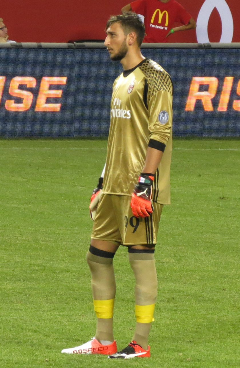 Gianluigi Donnarumma, Bayern Munich v AC Milan, International Champions Cup 2016